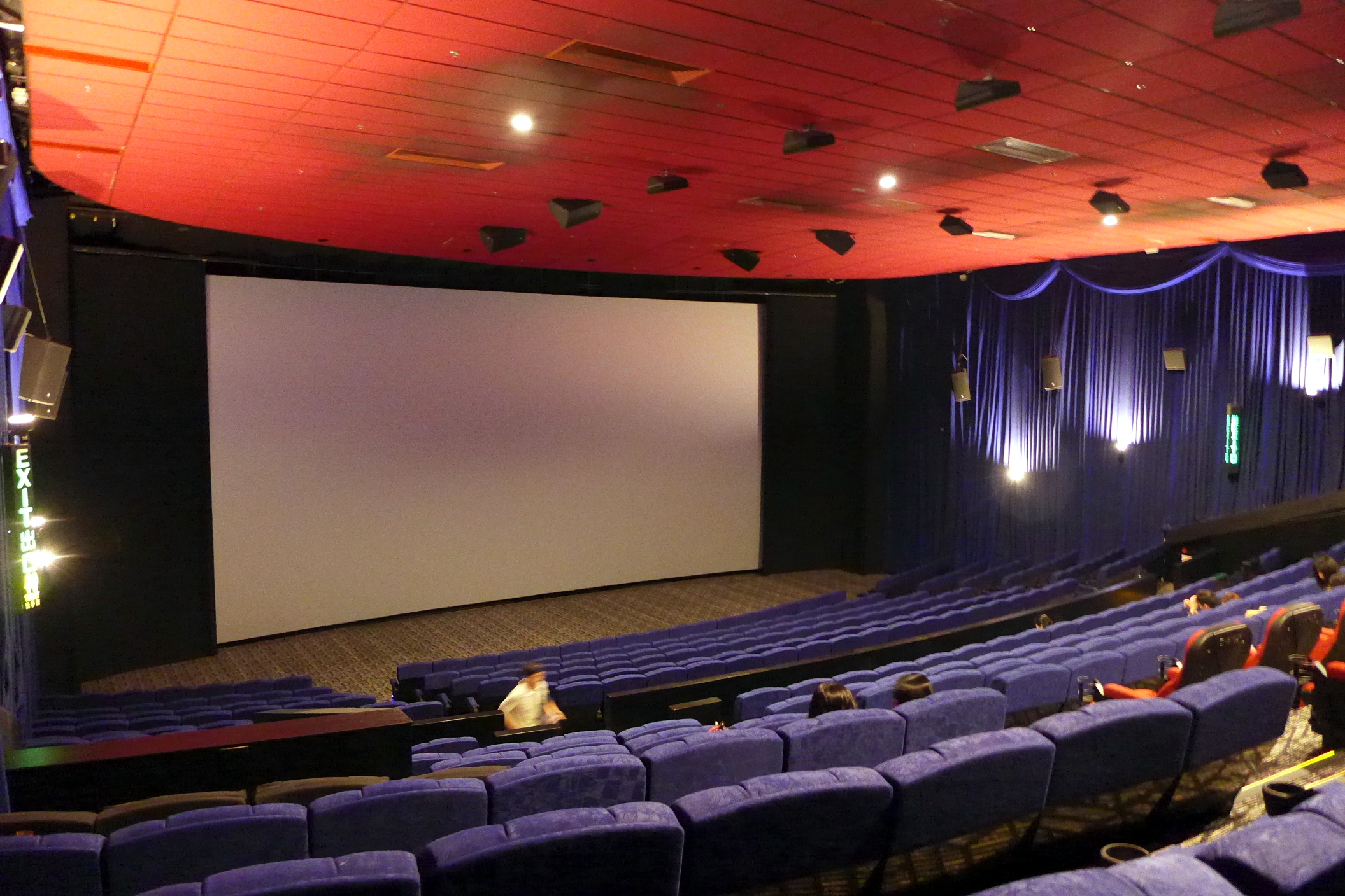 Grand Ocean 海運戲院